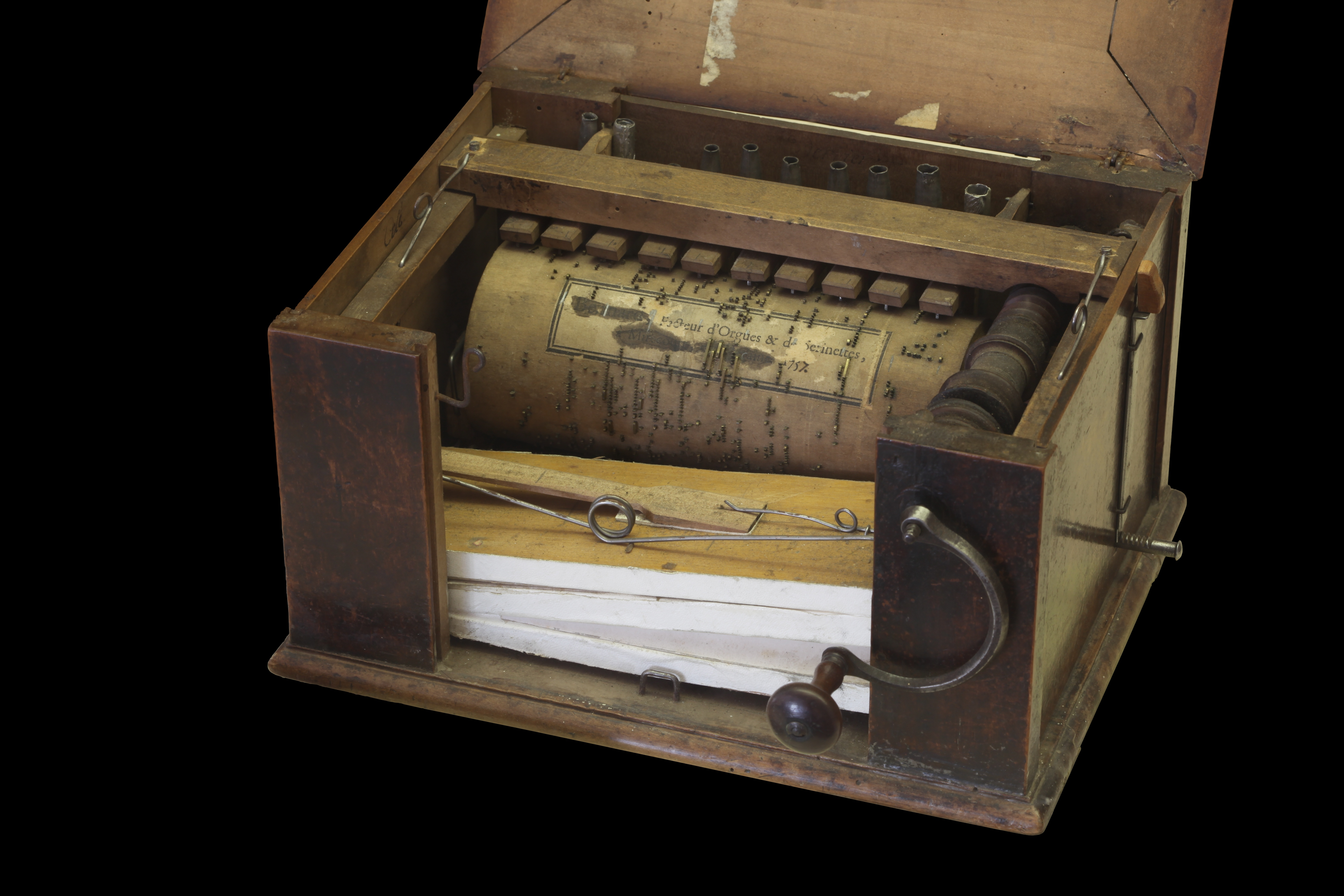 Serinette made by Bennard from Mirecourt, France, in 1757. On display at the Musée historique de Lausanne.